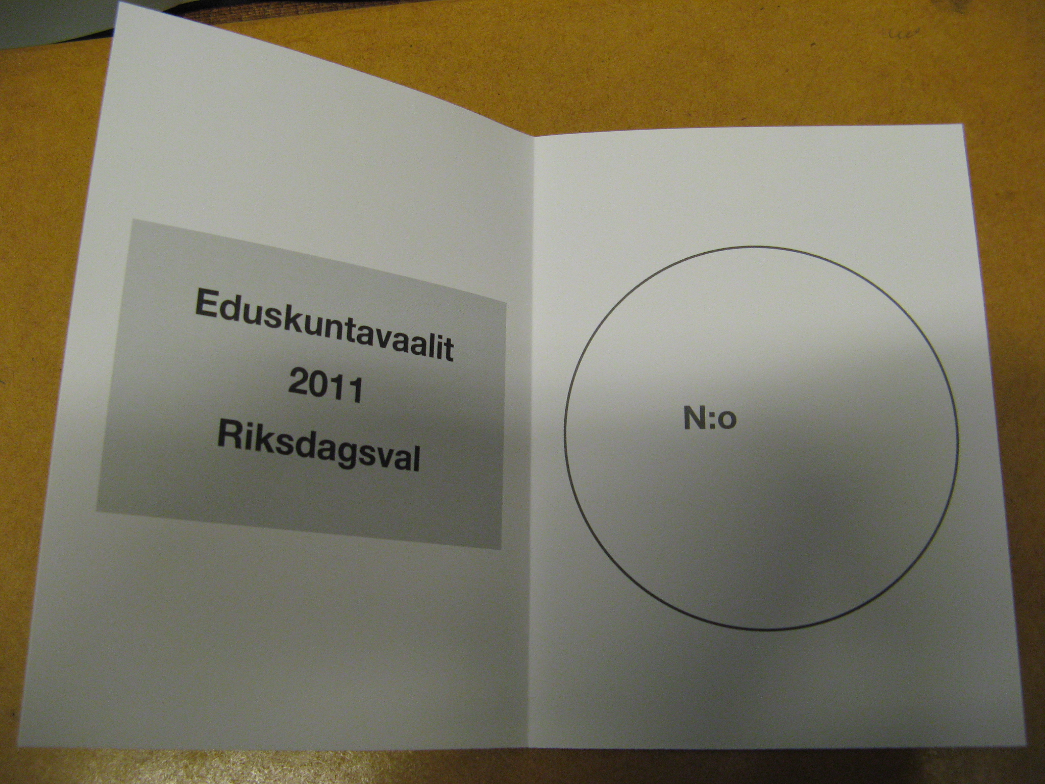 Finnish ballot, parliamentary elections 2011. The number of the candidate is to be written inside the circle. Ballots in other national and municipal elections are similar.